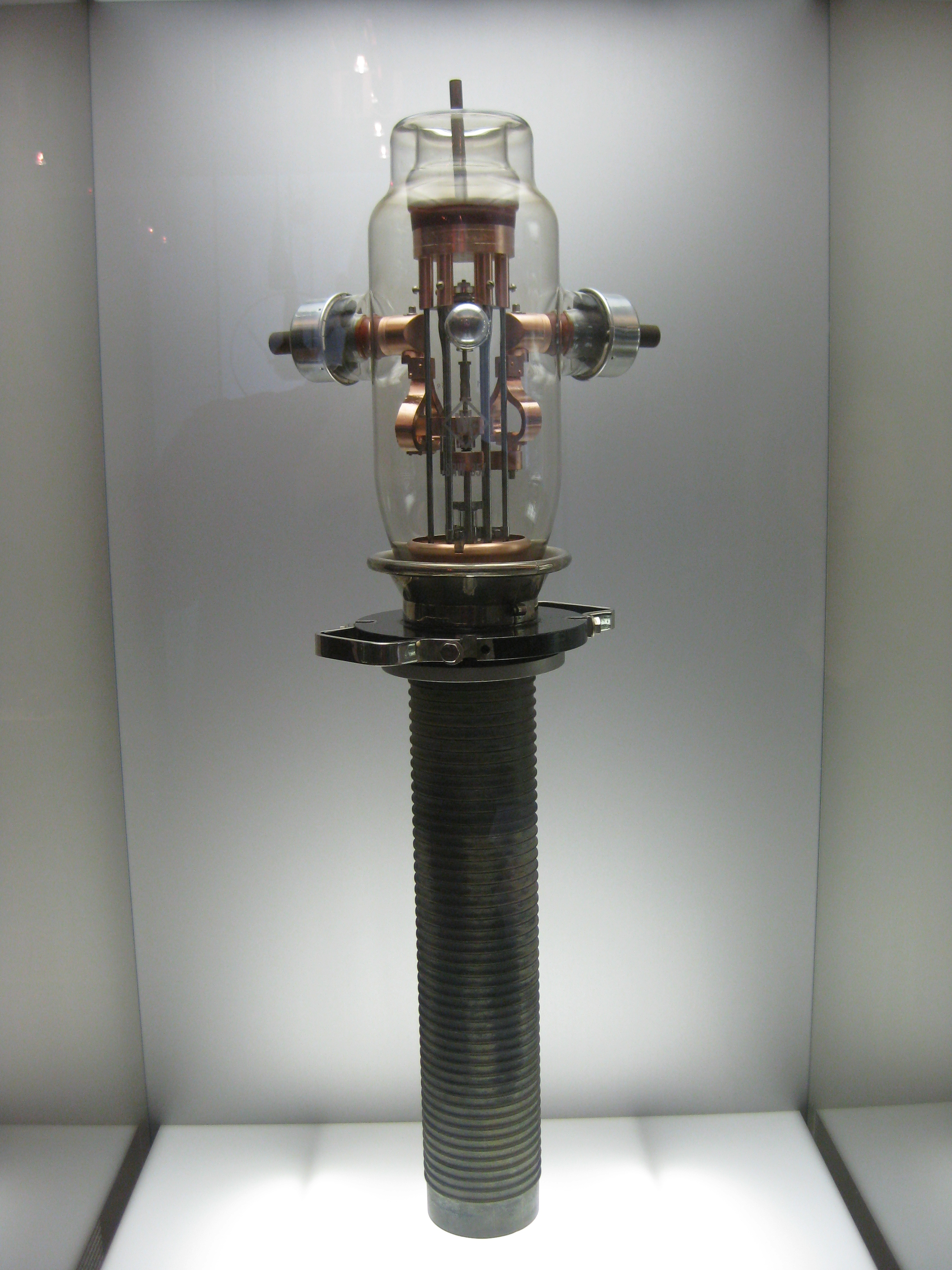 Photo of a triode at the Berlin Communications Museum (Museum für Kommunikation Berlin)